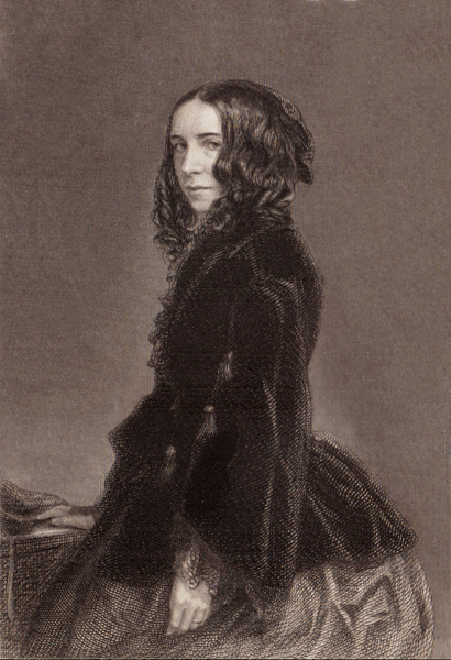 Warning: Mirror image. Elizabeth Barrett Browning, Engraved September, 1859, by Macaire Havre, engraving by T. O. Barlow.